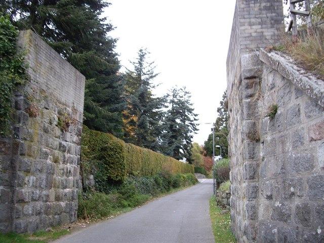 Old railway bridge abutments On Woodside Road, Torphins.